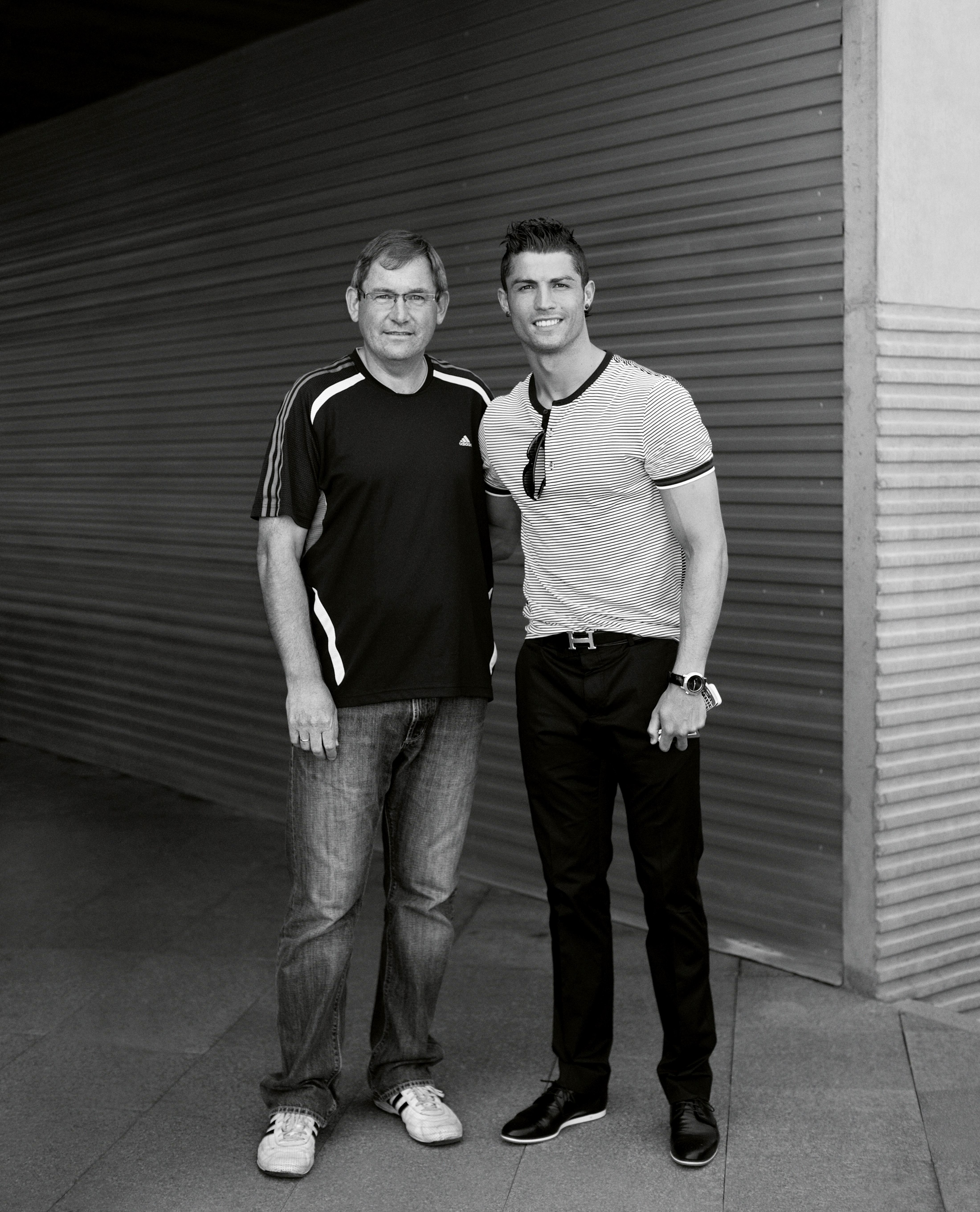 The Norwegian professor of physiology, Jan Helgerud and the Portuguese soccer player Cristiano Ronaldo